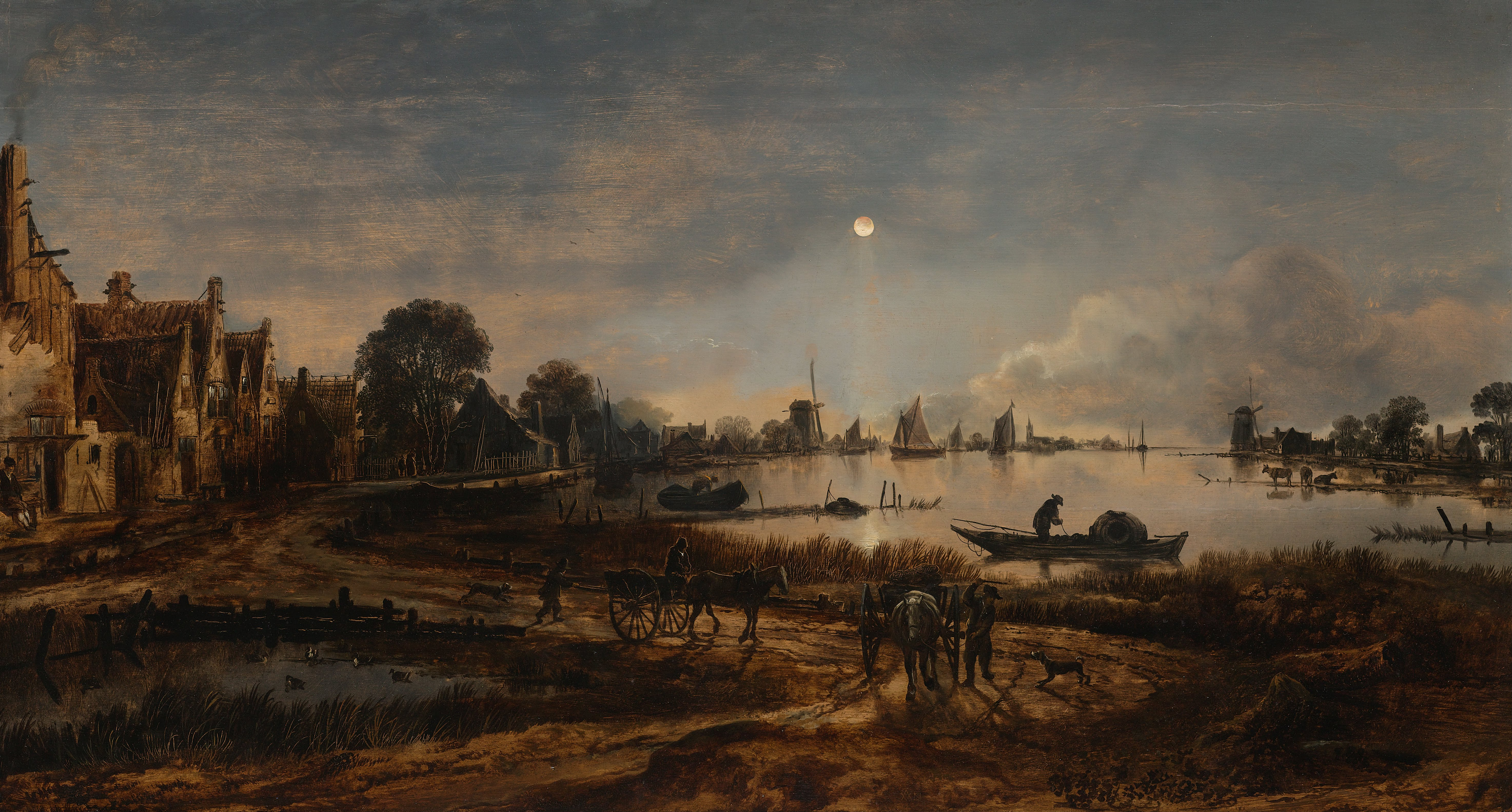 View of a village on a river by moonlight. In the foreground two horse and carriage on a dirt road. To the right a fisherman on a small boat on the water. On the horizon two windmills.